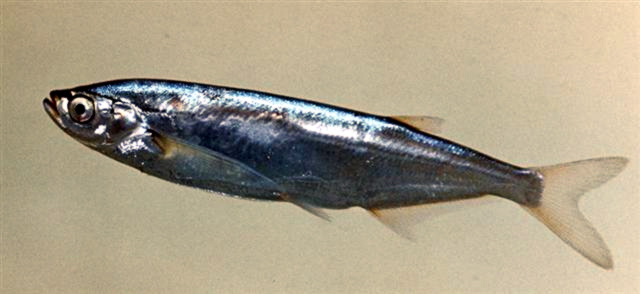 Pelecus cultratus collected in river Tisza, Tiszafüred, Hungary.